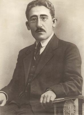 Sargis Kasyan portrait